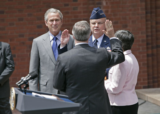 President George W. Bush attends the swearing-in ceremony of Air Force Lt. Gen. Michael Hayden, center, as Deputy Director of National Intelligence at the New Executive Office Building.